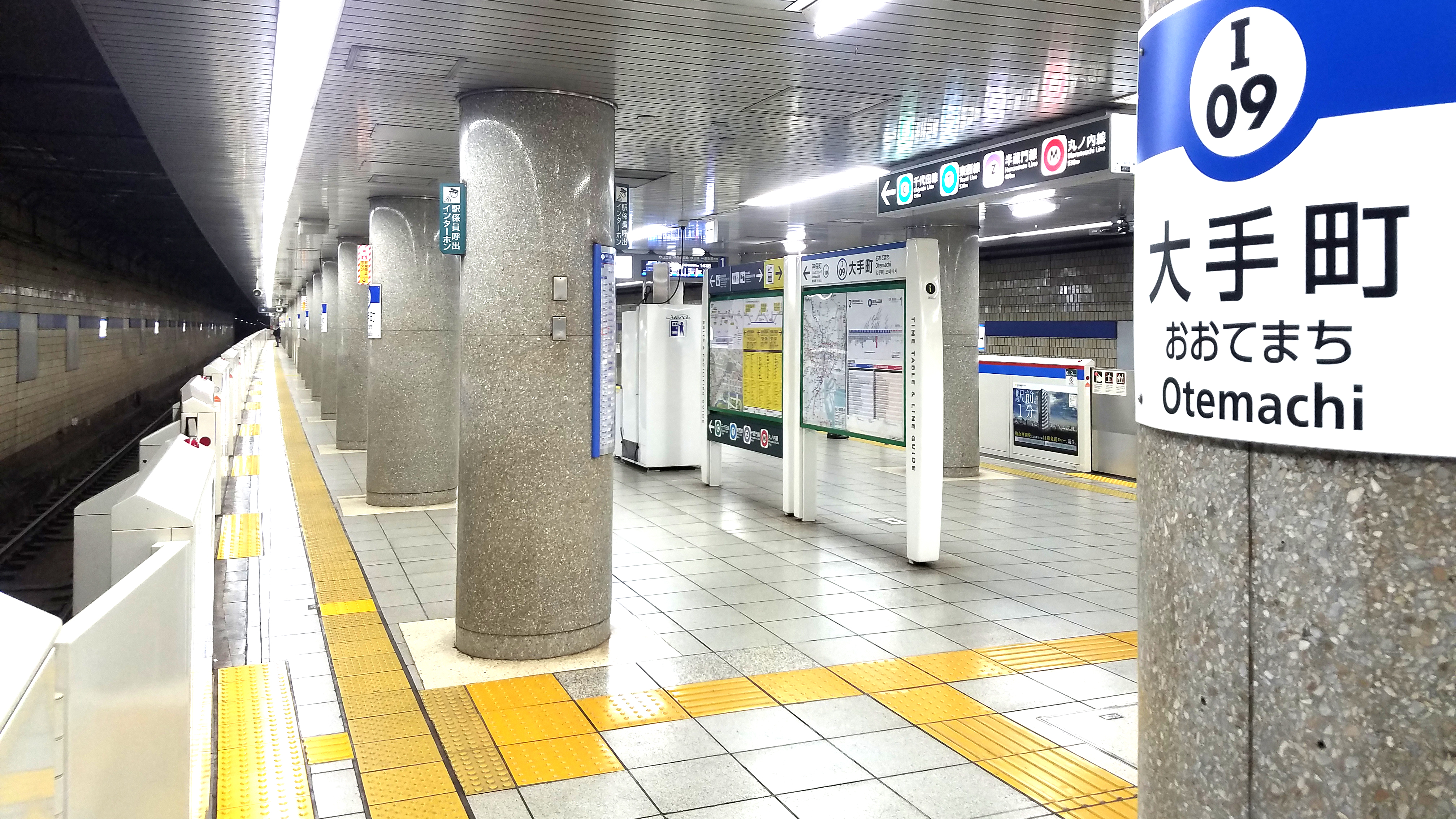 The platform at Ōtemachi Station on the Toei Mita Line in Chiyoda city, Tokyo, Japan